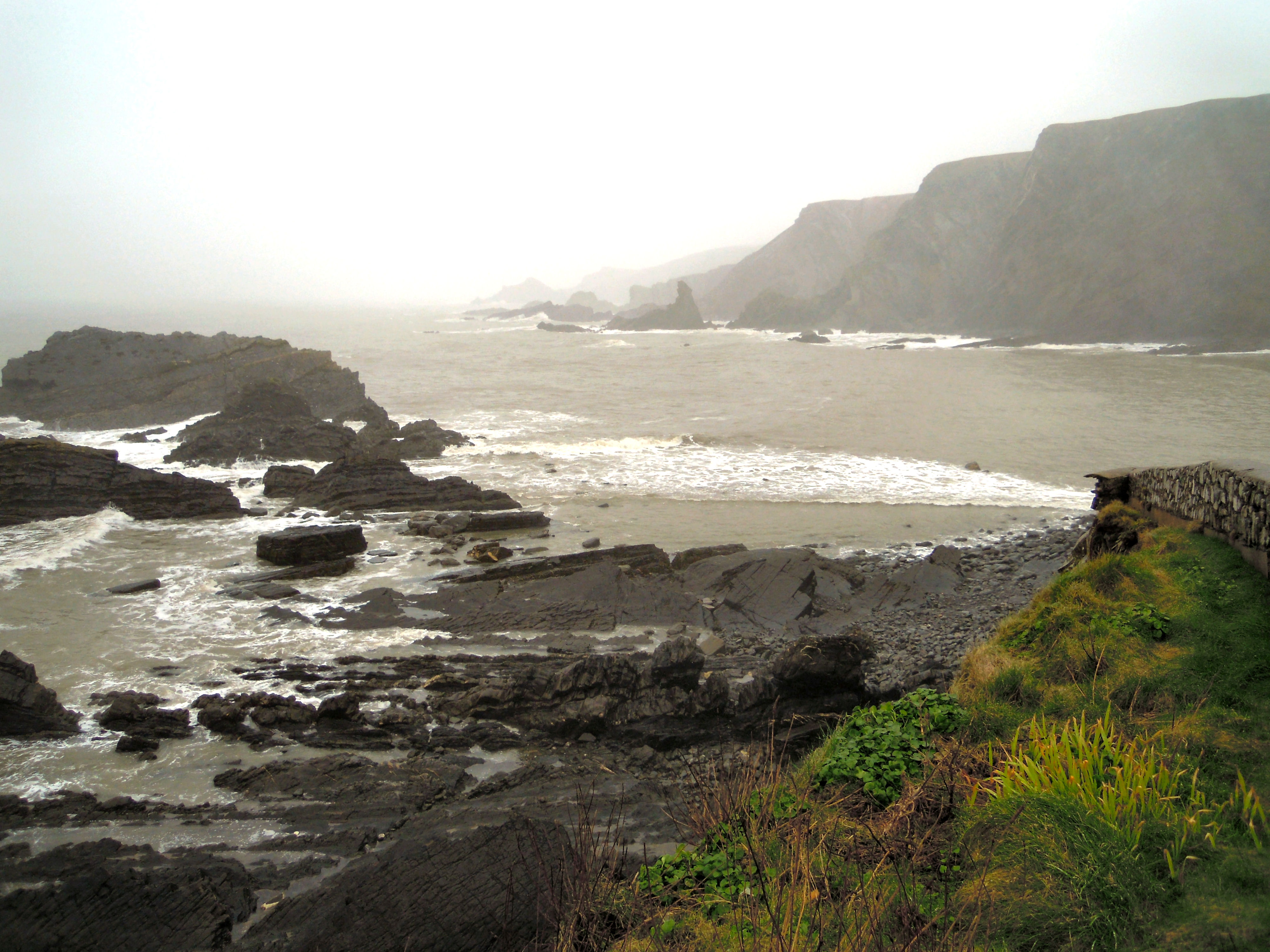 Rough seas off Hartland Quay